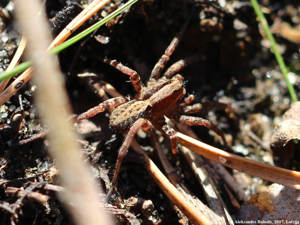 Alopecosa aculeata